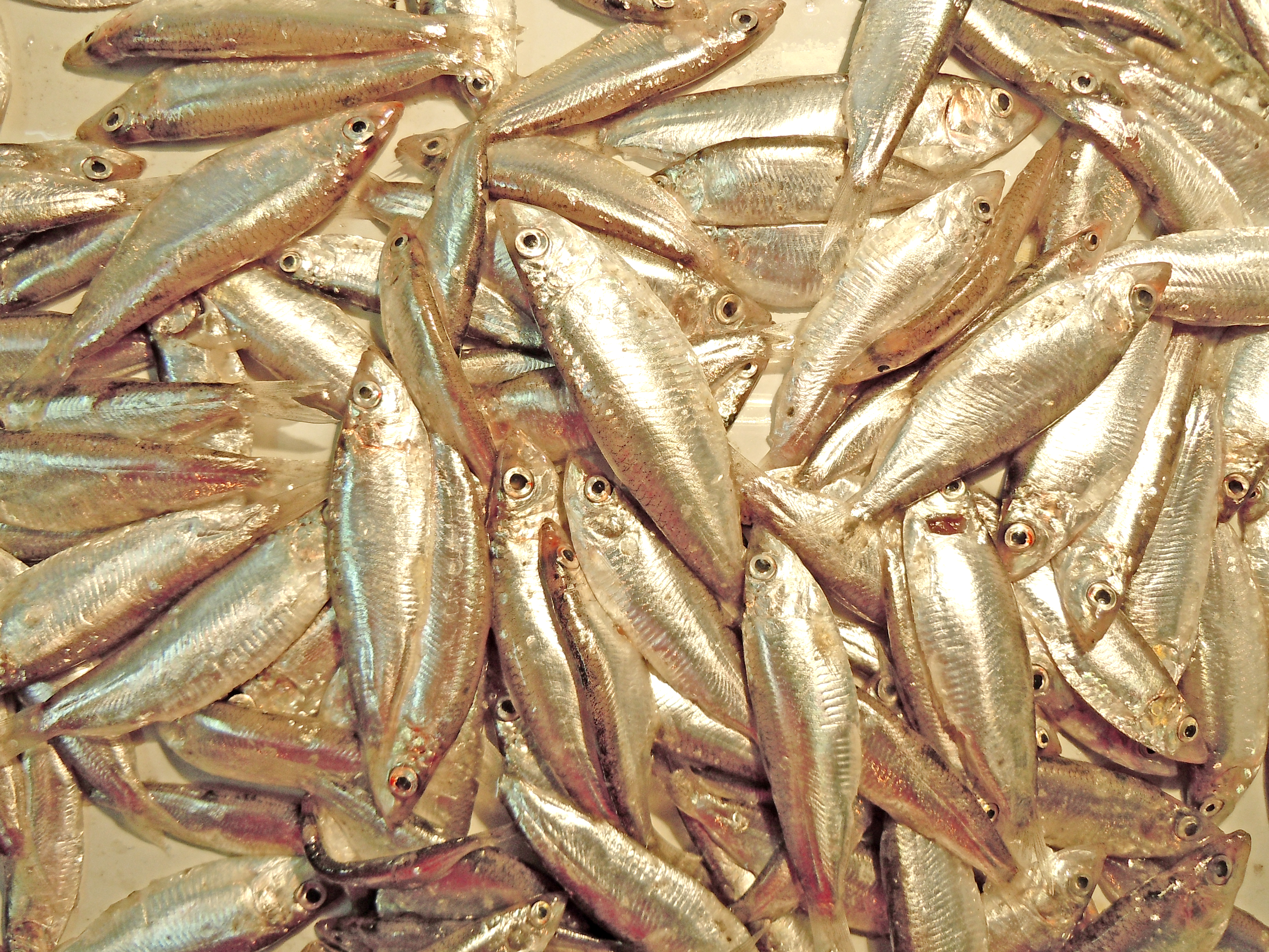 Black Sea sprat (Clupeonella cultriventris) caught in the Danube River delta, Ukraine